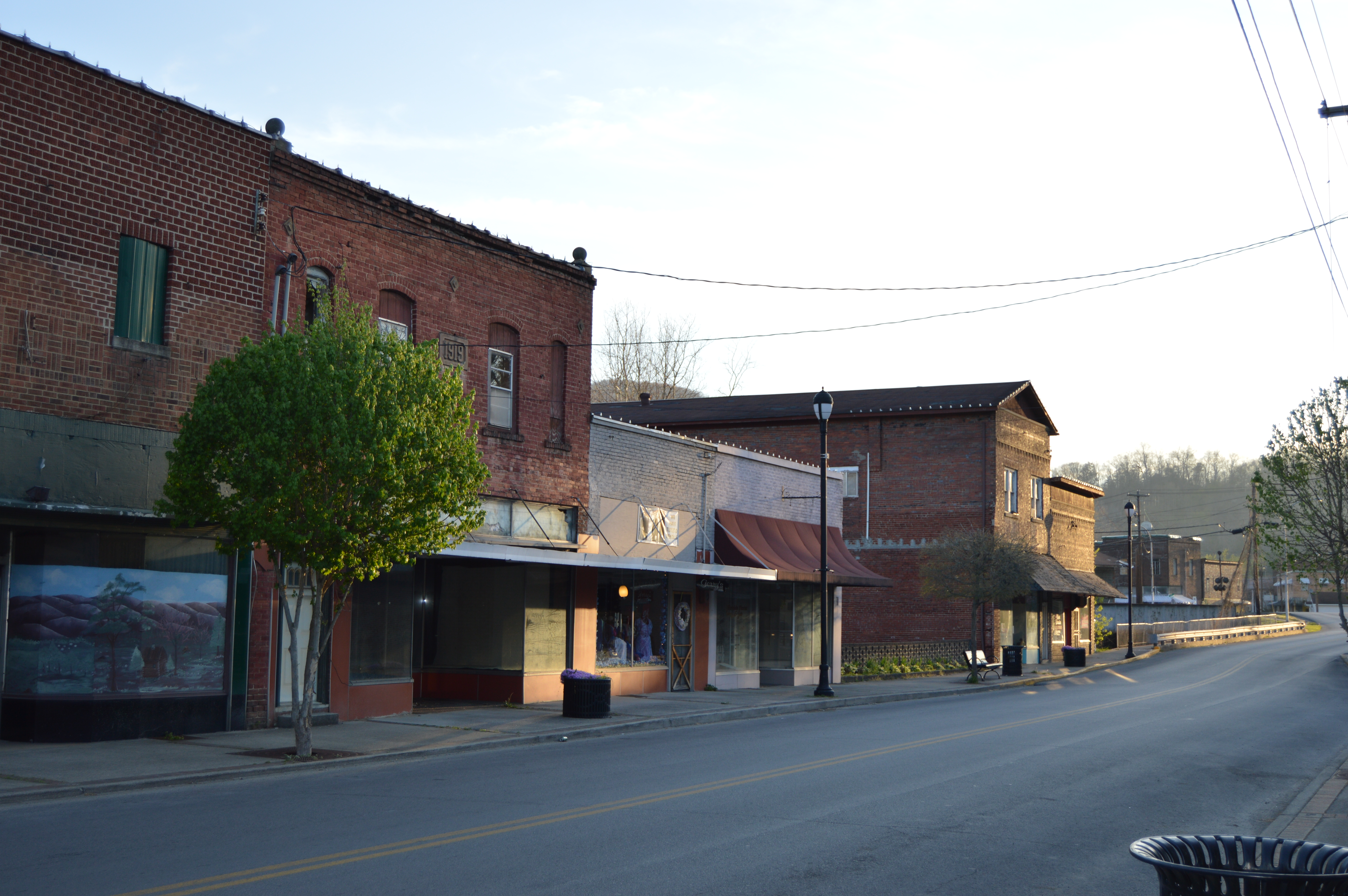 Buildings on the northern side of W. Main Street (Kentucky Route 179), seen looking east from Myers Street, in downtown Cumberland, Kentucky, United States. This section of Main is part of the Cumberland Central Business District, a historic district that is listed on the National Register of Historic Places.